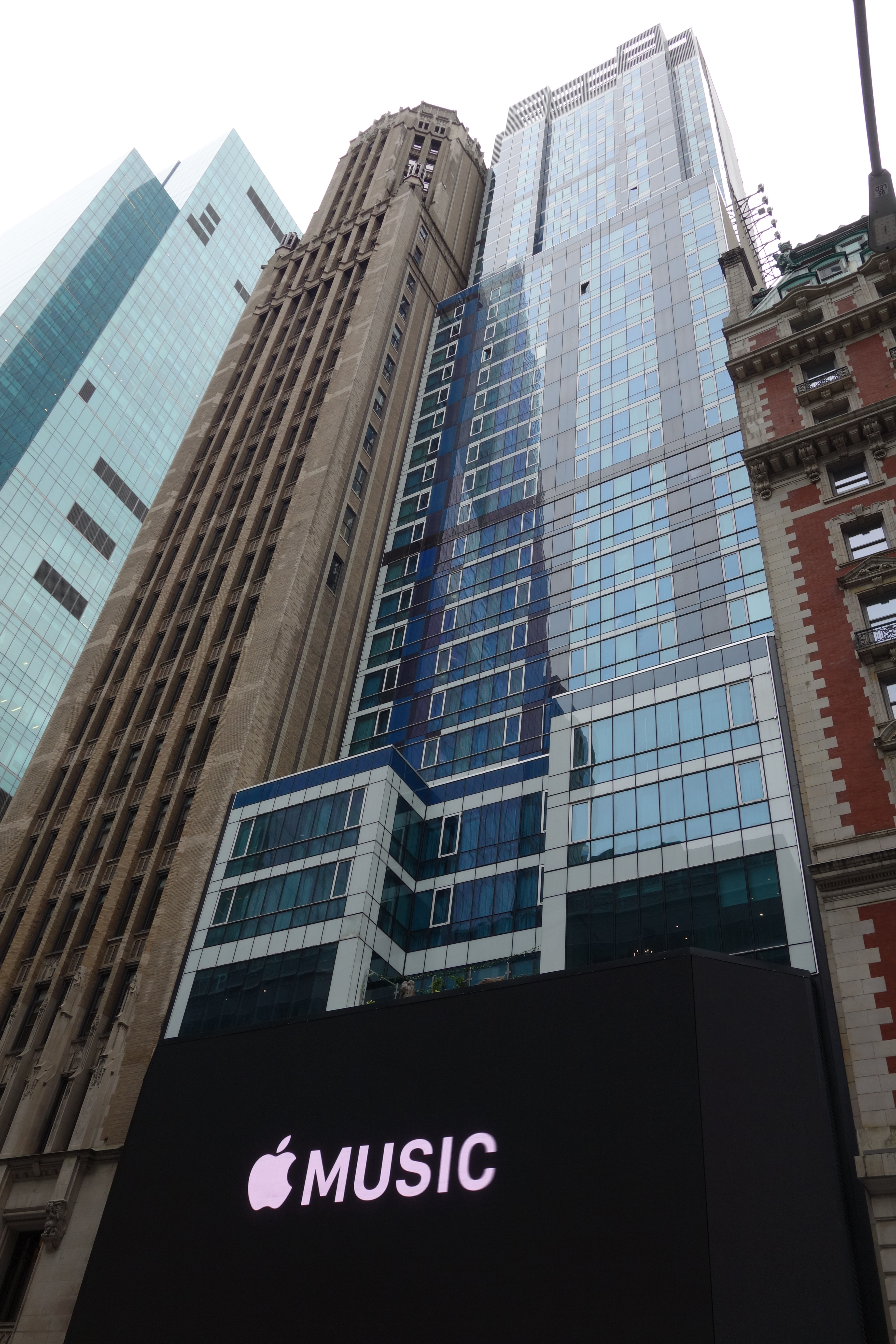 Looking up and south at the historic Bush Tower (left) and the Hilton Garden Inn (right; 136 West 42nd Street) at 42nd Street east of Broadway in Times Square, Midtown Manhattan.